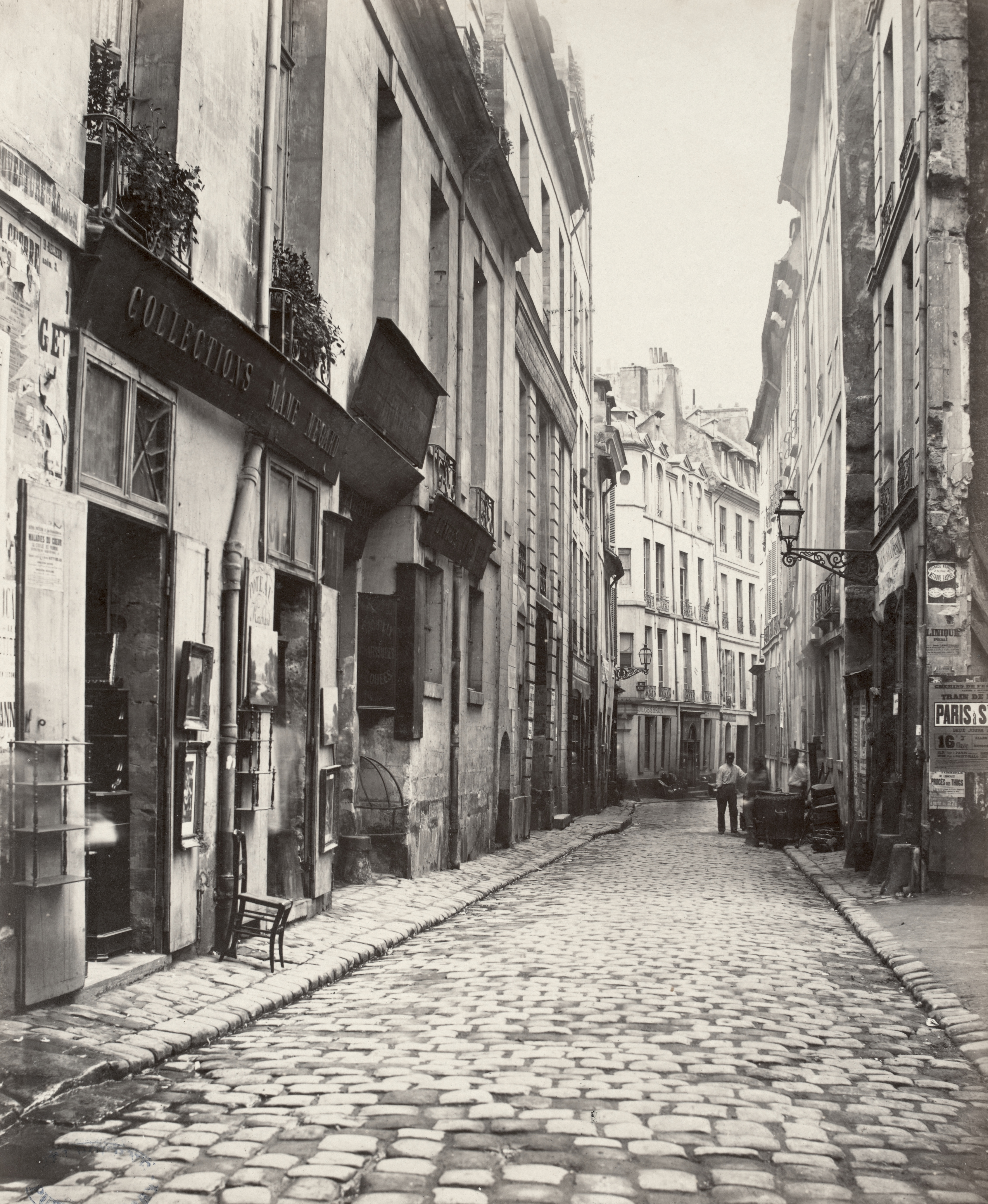 Looking along cobbled street, doorways opening onto narrow paths, doorway in left foreground open with exhibits of art on the wall, chair on path, men standing on street in background.